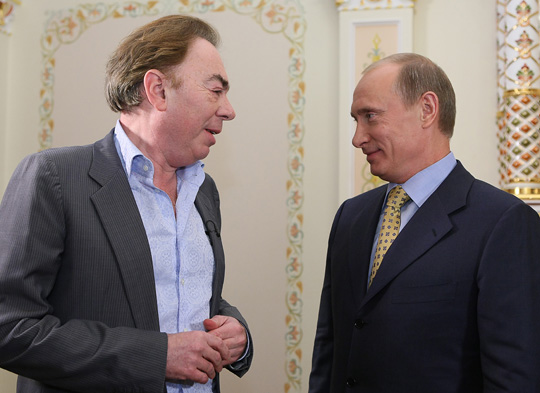 Prime Minister Vladimir Putin met with British composer Andrew Lloyd Webber